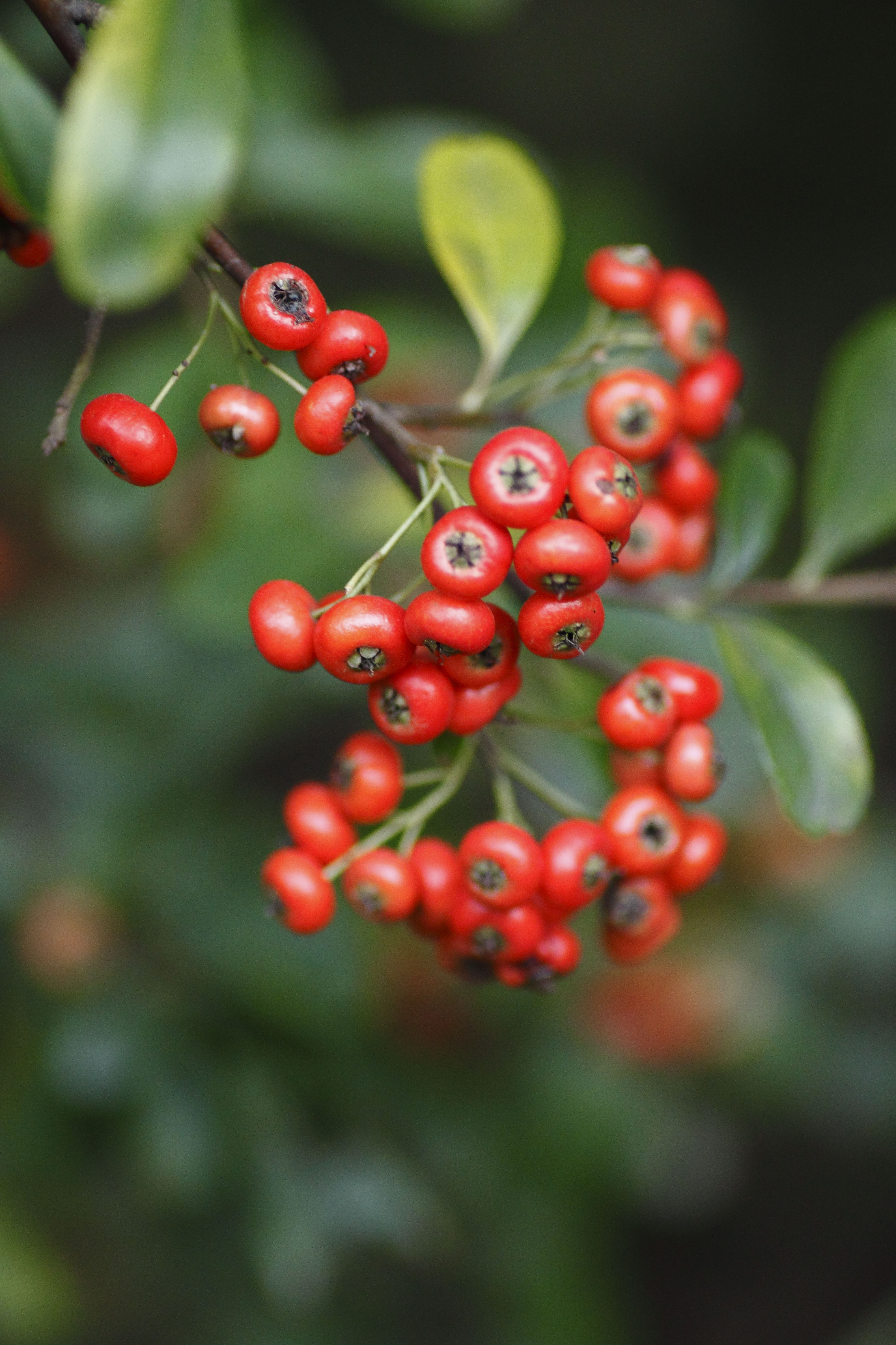 Pyracantha fortuneana